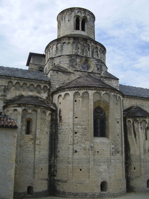 Cruas abbey (Ardèche, France)